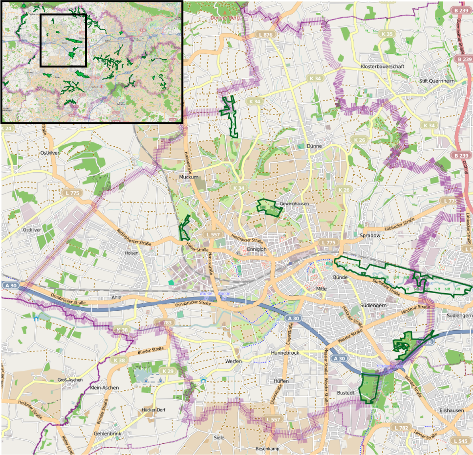 Nature reserves in Bünde - overview mapNumber and borders of nature reserves are subject to frequent change. In order to facilitate reproduction of this map from openstreetmap, the following data is stored here: export boundaries: north: 52.26; west: 8.47; east: 8.64; south: 52.16; mapnik svg, scale 1:70.000 nature reserve boundary stroke weight 3.5; nature reserve stroke color: R 5, G 102, B 36; district border stroke weight: 20